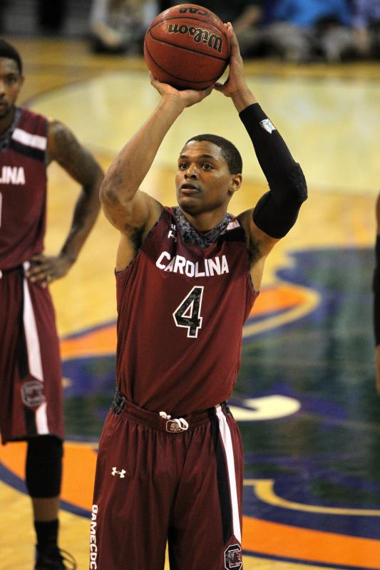 Tyrone Johnson made Free Throw, scored 12 Points